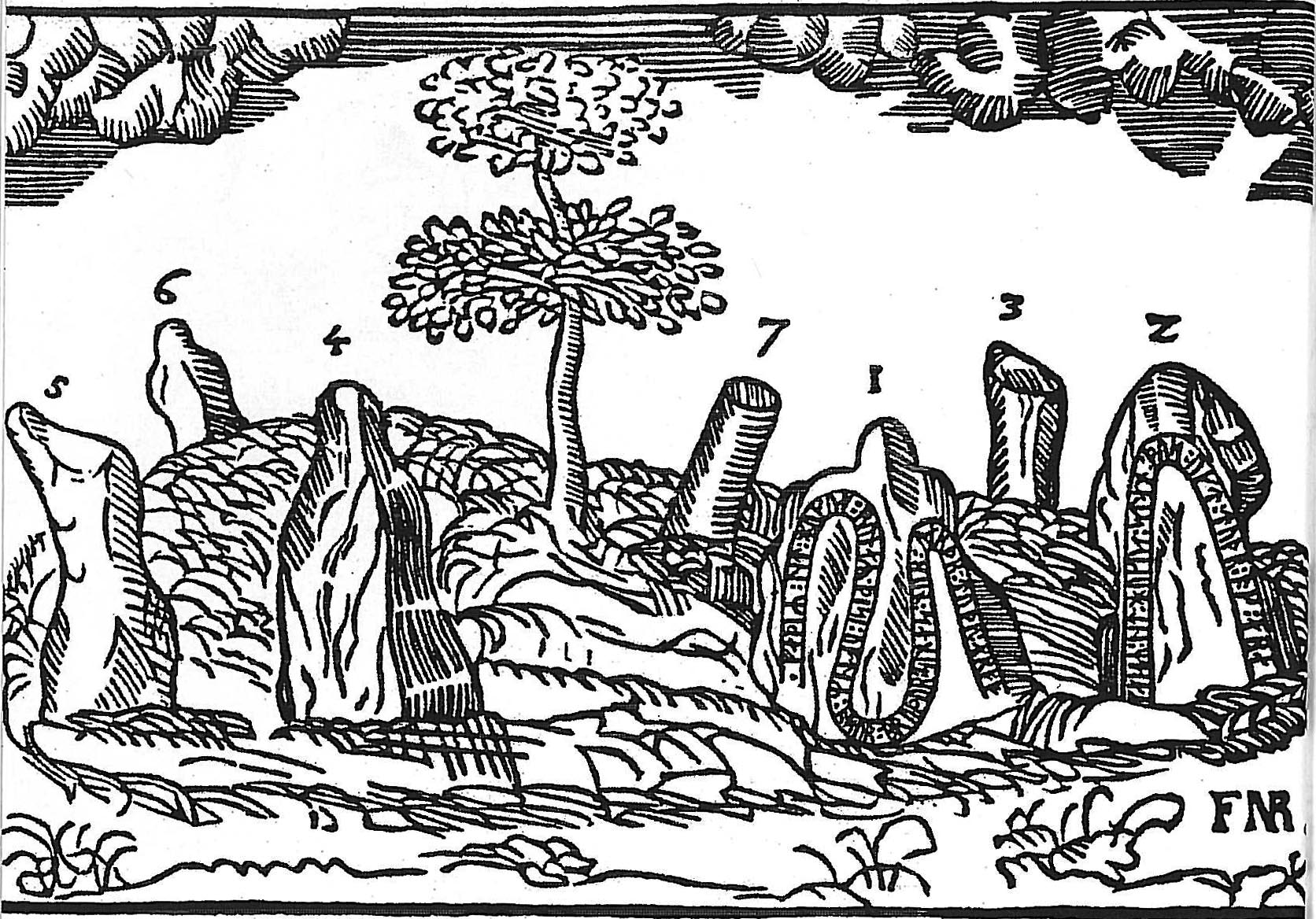 The viking age monument at Västra Strö, Skåne, Sweden. Picture printed in Ole Worms Tulshøi sev Monumentarum Strøense in Scania (1628), thus PD.